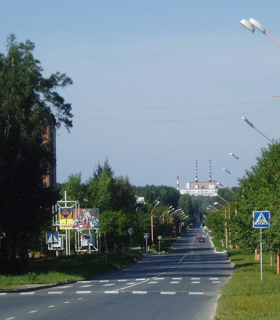 Main street of the Russian town of Zarechny (Sverdlovskaya)